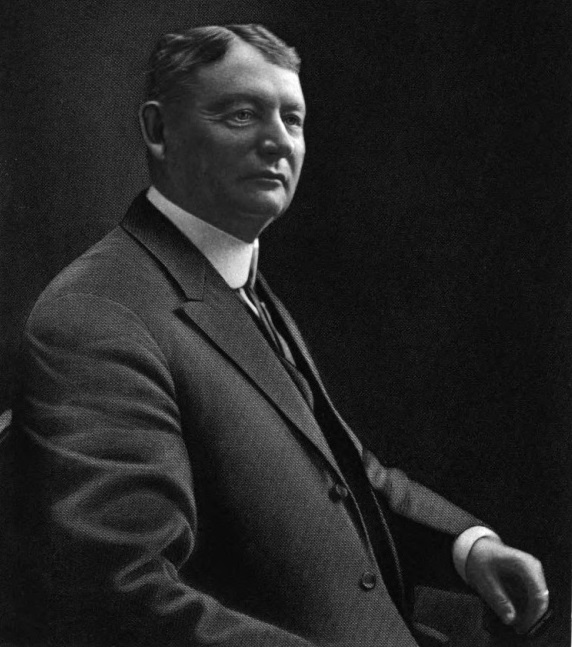 Horace B. Packer (Pennsylvania Congressman)